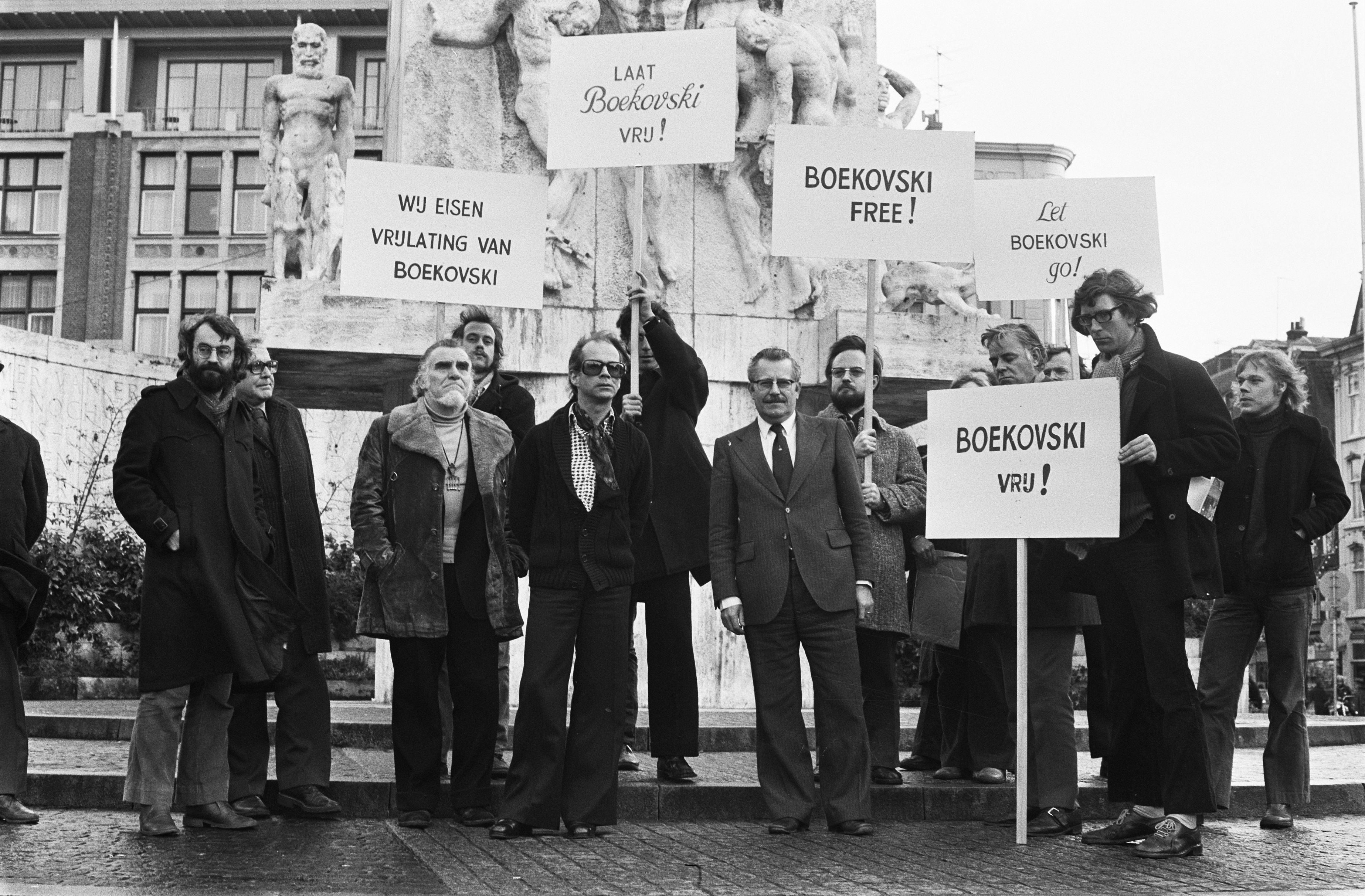 Protest demonstration in favour of the release from prison of Vladimir Bukovsky (Dam, Amsterdam, January 1975). Left to right: Roel van Duijn, unidentified person (J.W. Bezemer?), unidentified person, unidentified person, Henk van Ulsen, Maarten Biesheuvel, unidentified person, unidentified person, Jan Foudraine, unidentified person, unidentified person.